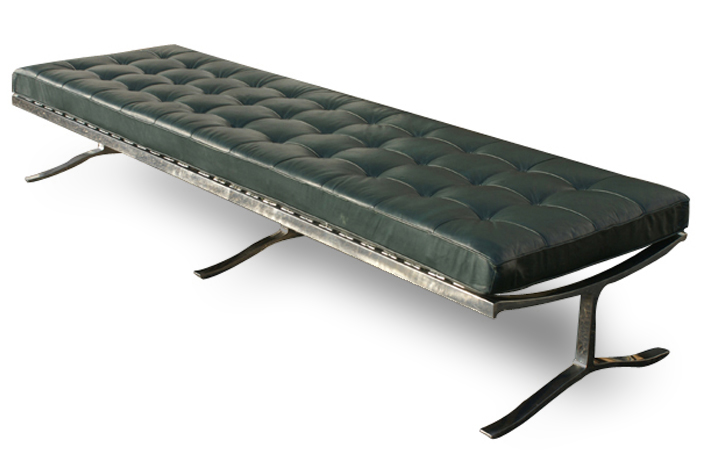 Bench designed by Nicos Zographos in the 1960ies